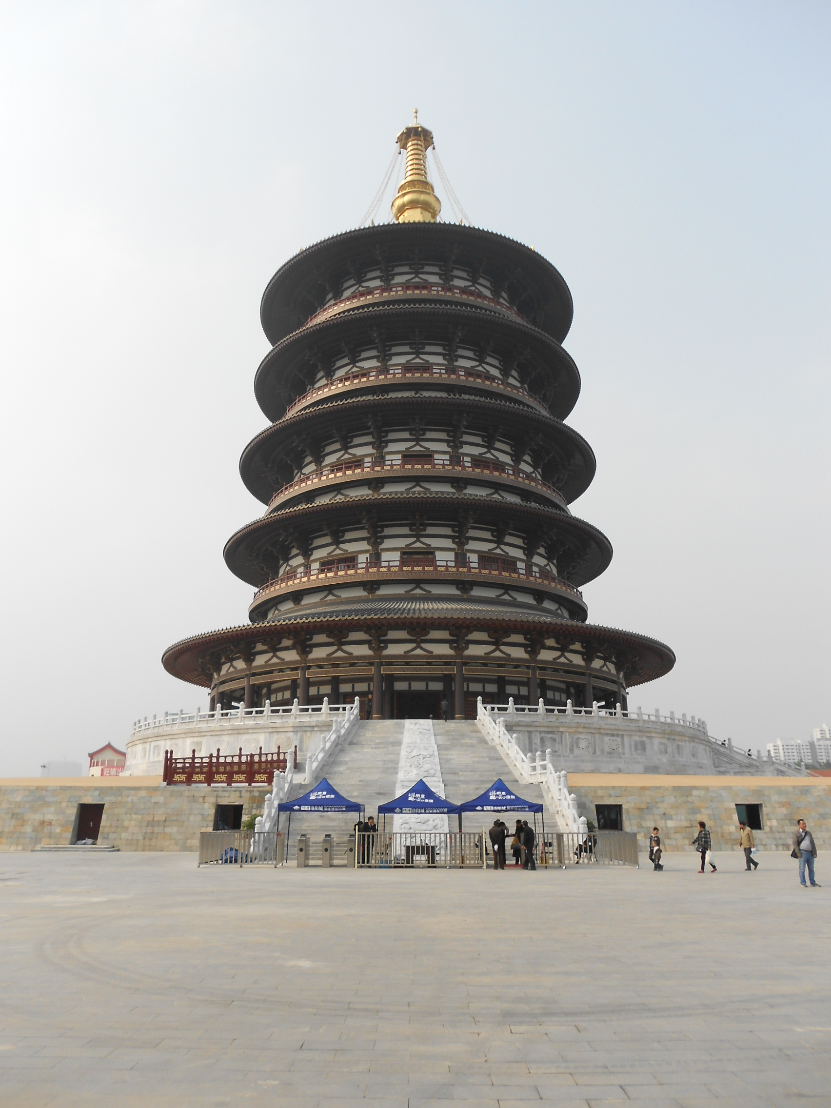 Luoyang Temple